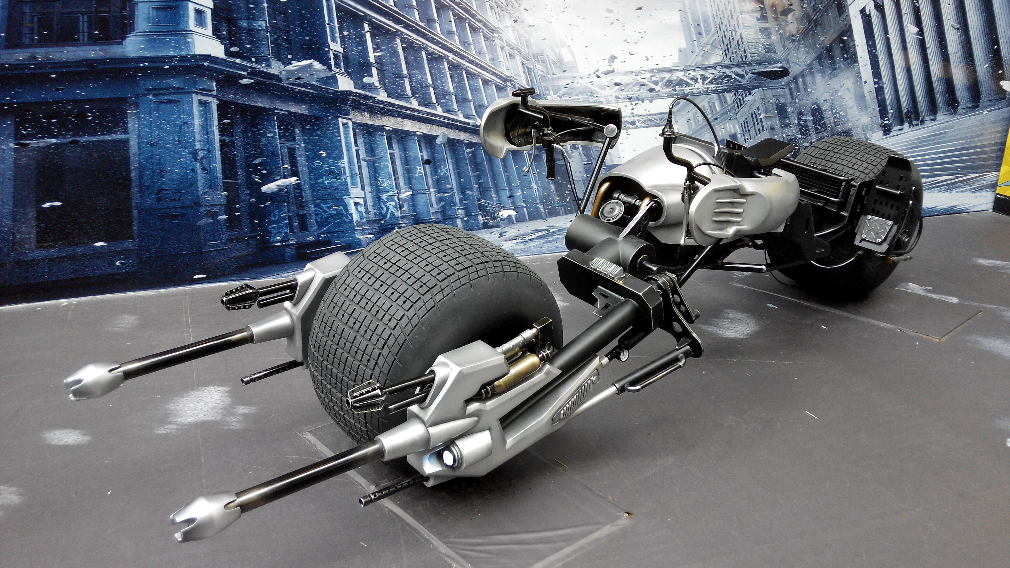 Batman Batmobile Batpod exhibition @銅鑼灣羅素街, Russell Street, 近香港時代廣場 Times Square, Causeway Bay, Hong Kong